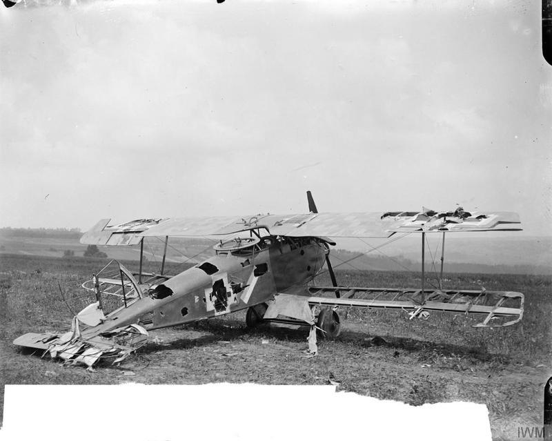 The German Spring Offensive, March-july 1918 A German Halberstadt CL.II two-seat fighter biplane brought down in the British lines. Faverolles, 29 May 1918.